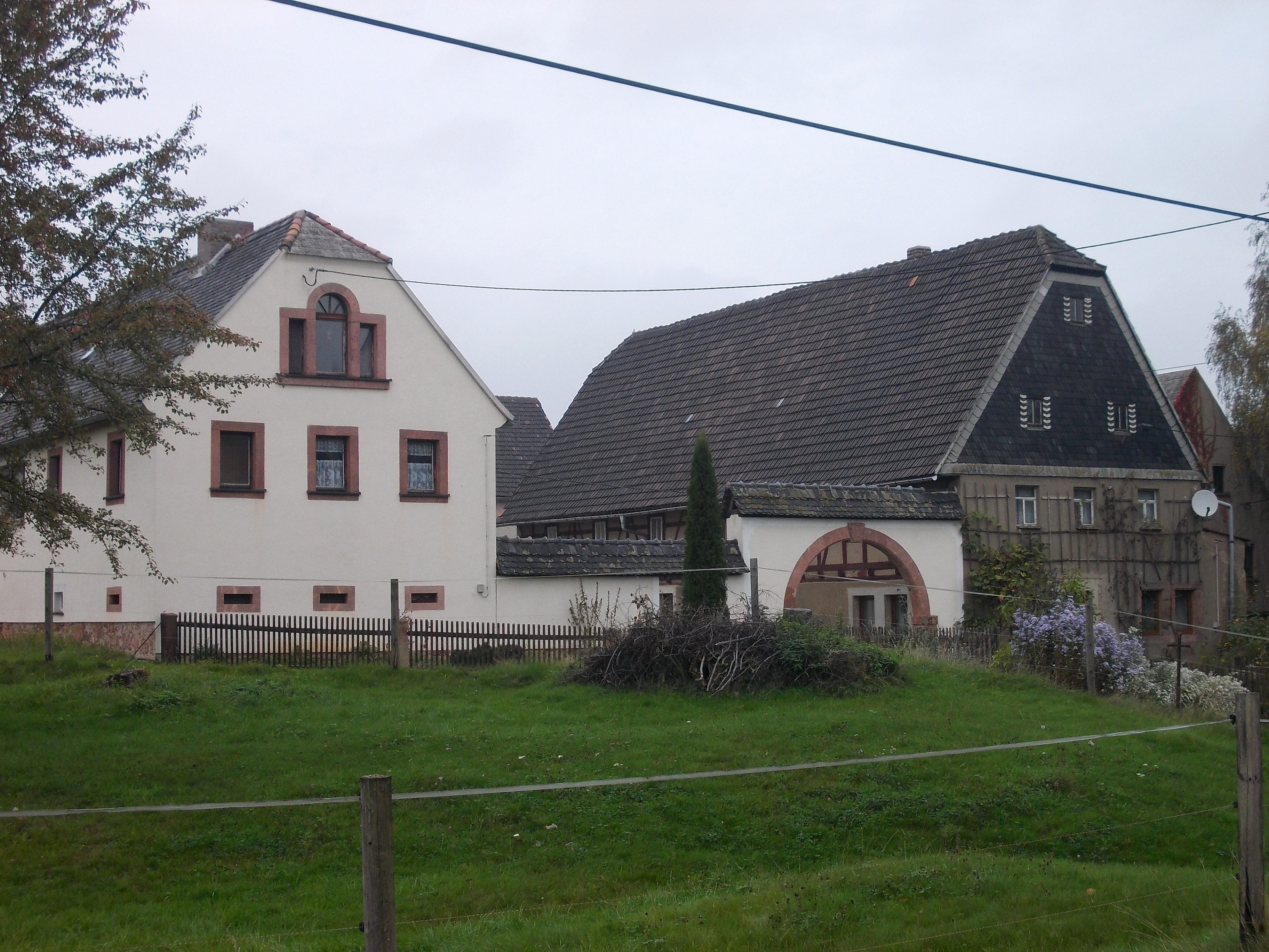 Farmstead in Wittgendorf (Rochlitz, Mittelsachsen district, Saxony)